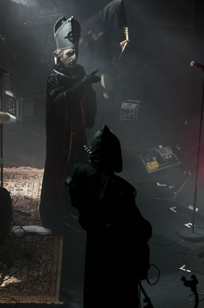 Ghost, live at Hole In The Sky 2011